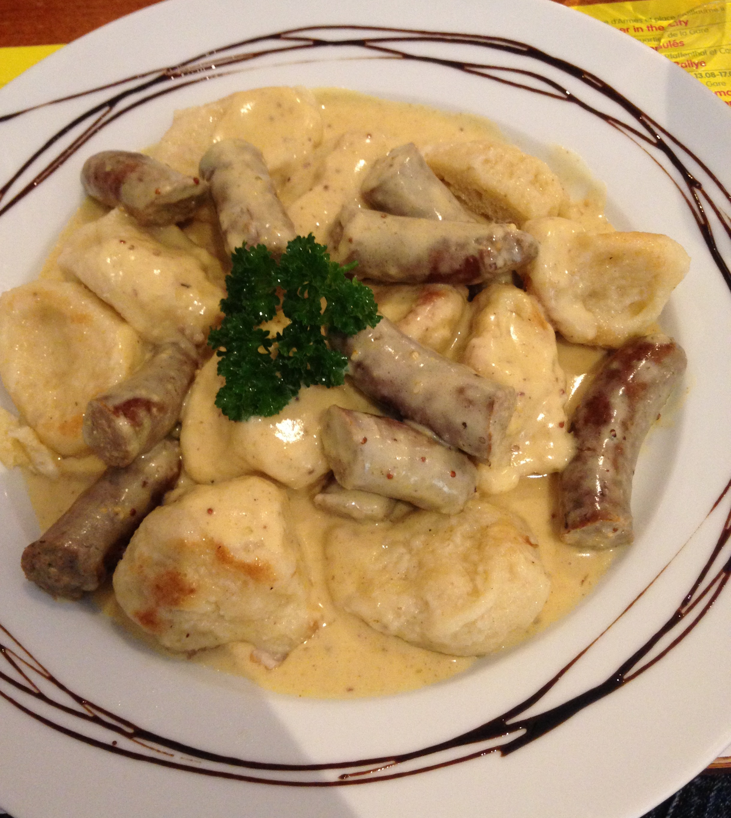 This dish combines two dishes of the Luxembourgish cuisine: Kniddelen (boiled dumplings) and Wäinzoossiss (saucage) in Moschterzooss (mustard sauce).